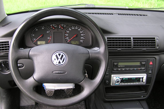 Cockpit of 1996–2000 Volkswagen Passat B5